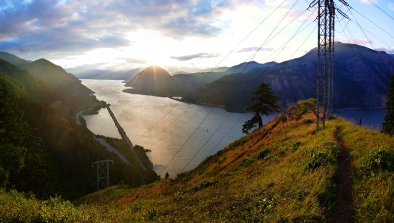 View of the Columbia River looking NW towards Washington State on the Mark O. Hatfield Memorial Trail.